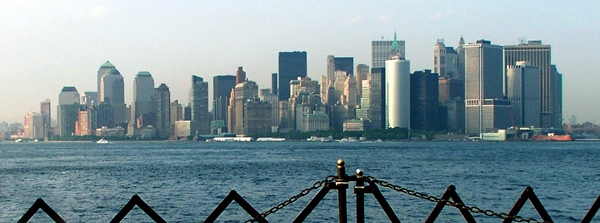 NYC Skyline from SI Ferry